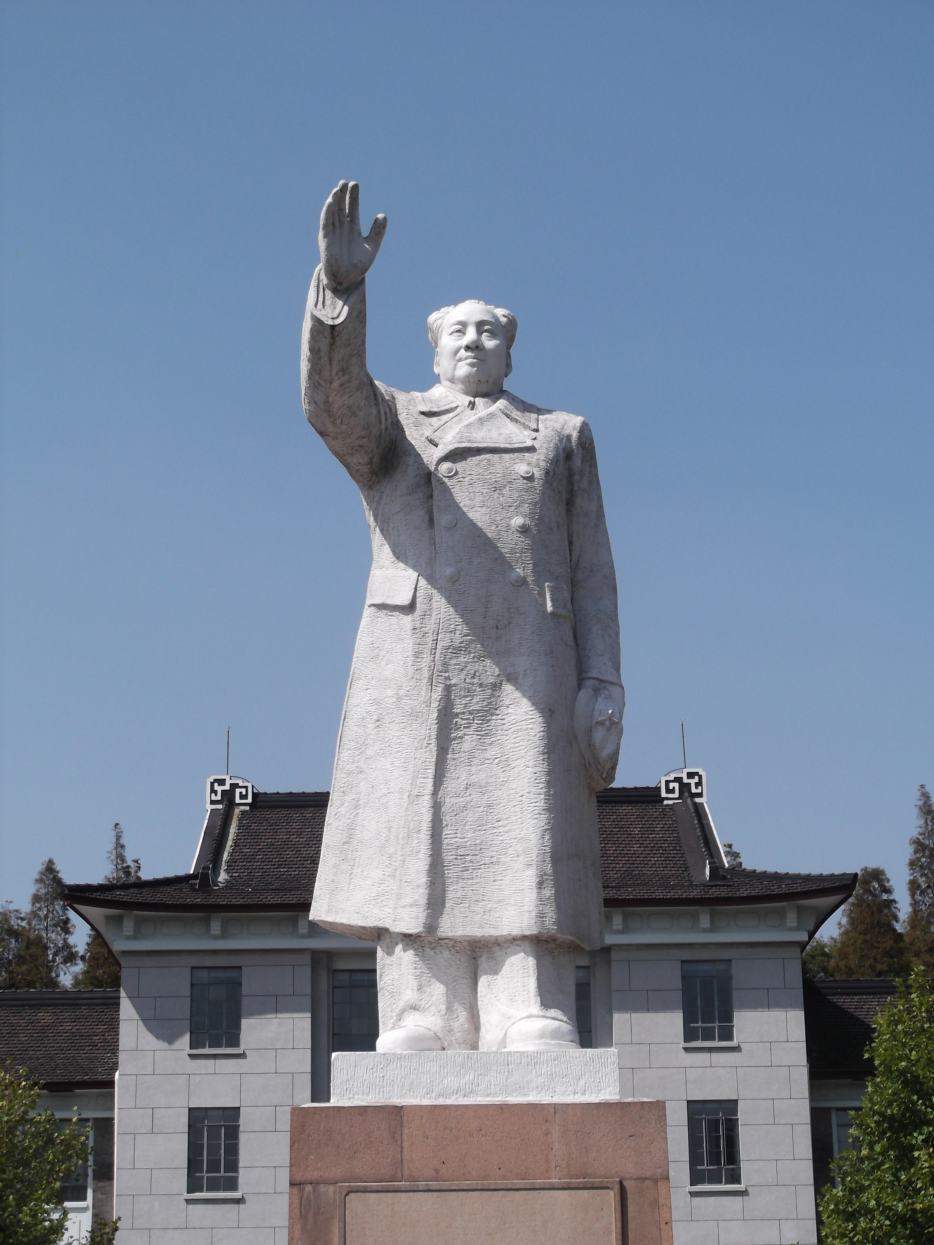 Statue of Mao Zedong, East China Normal University, Shanghai, China.